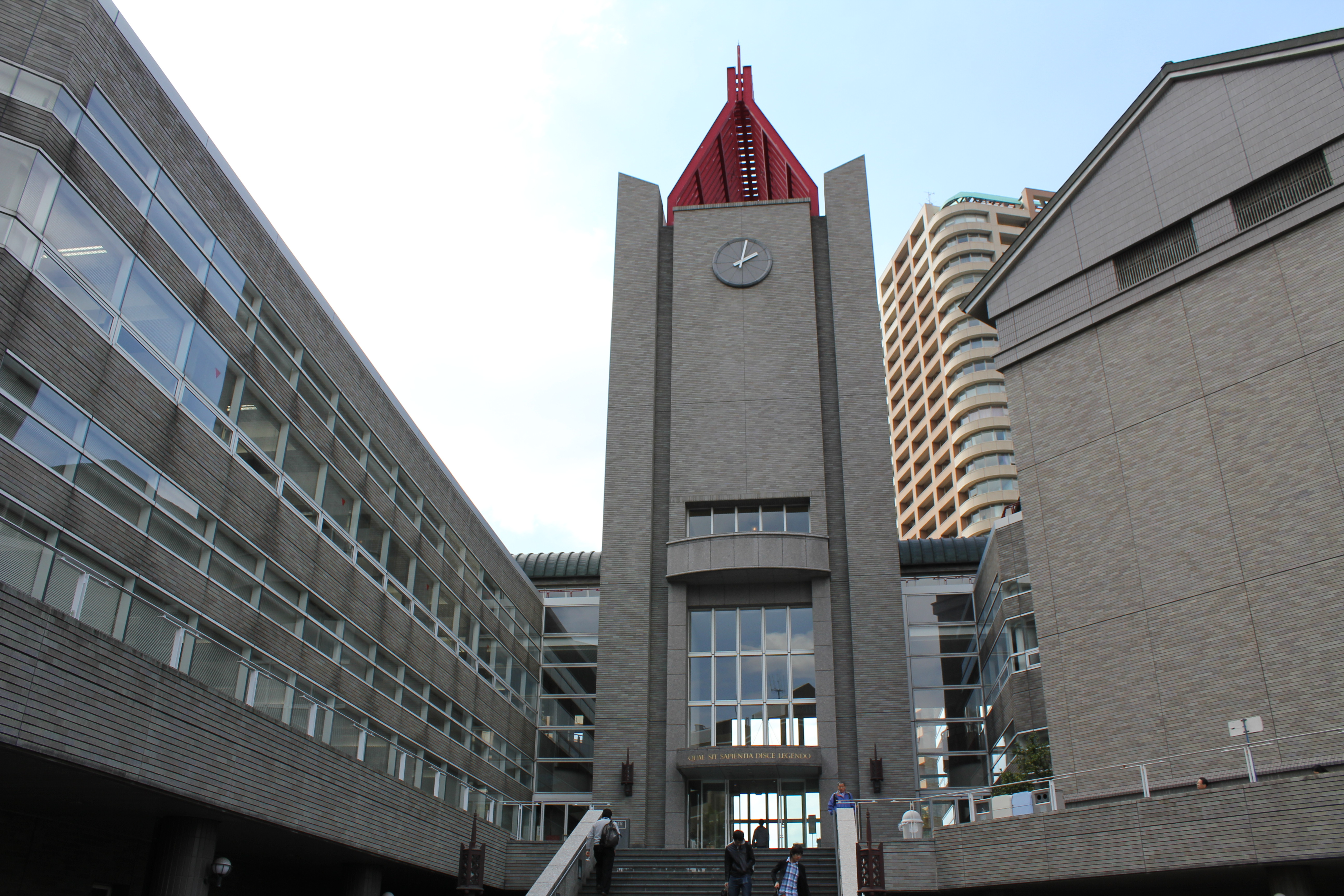 Central libray of Waseda University, Tokyo, Japan.